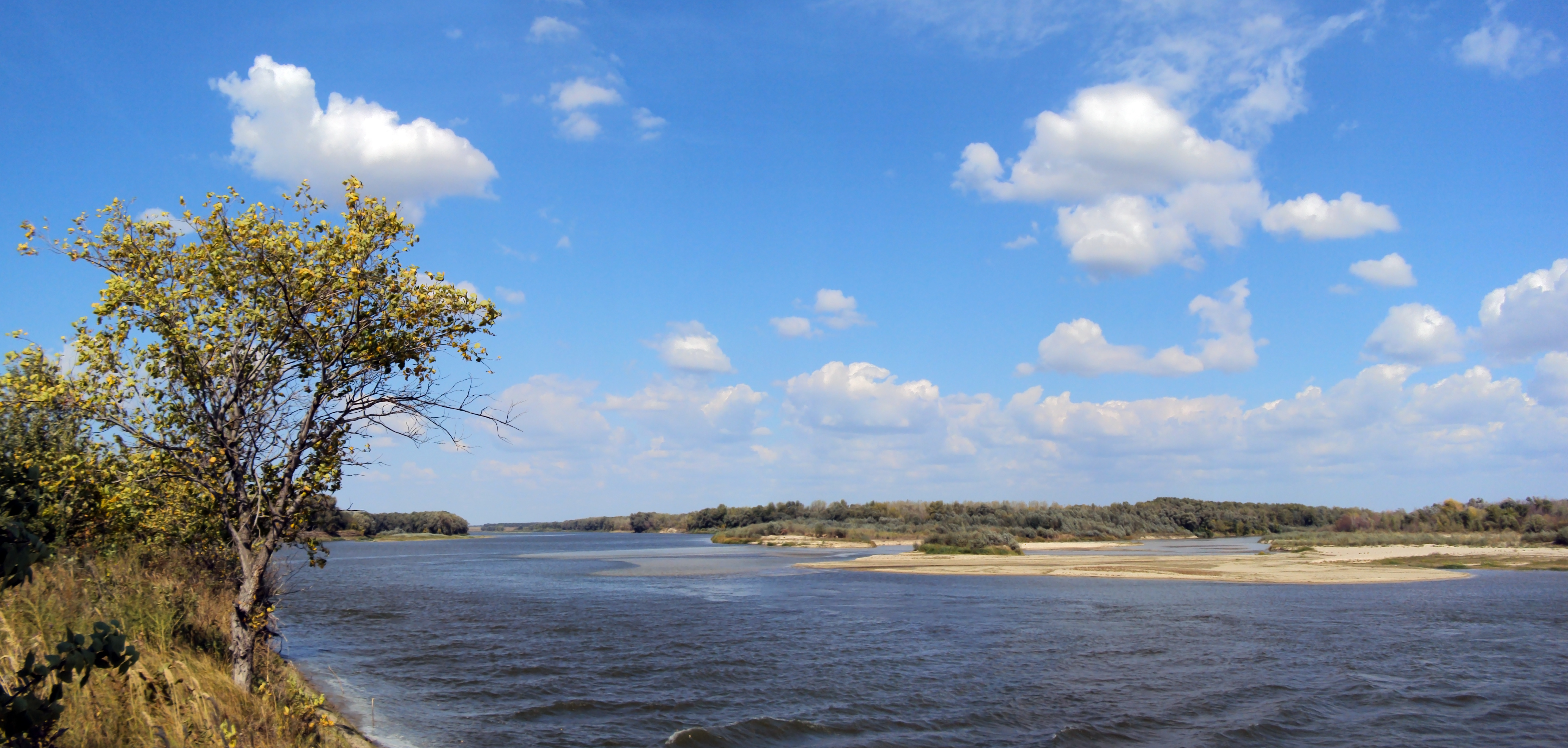 Medveditsa River falls into the Don River.